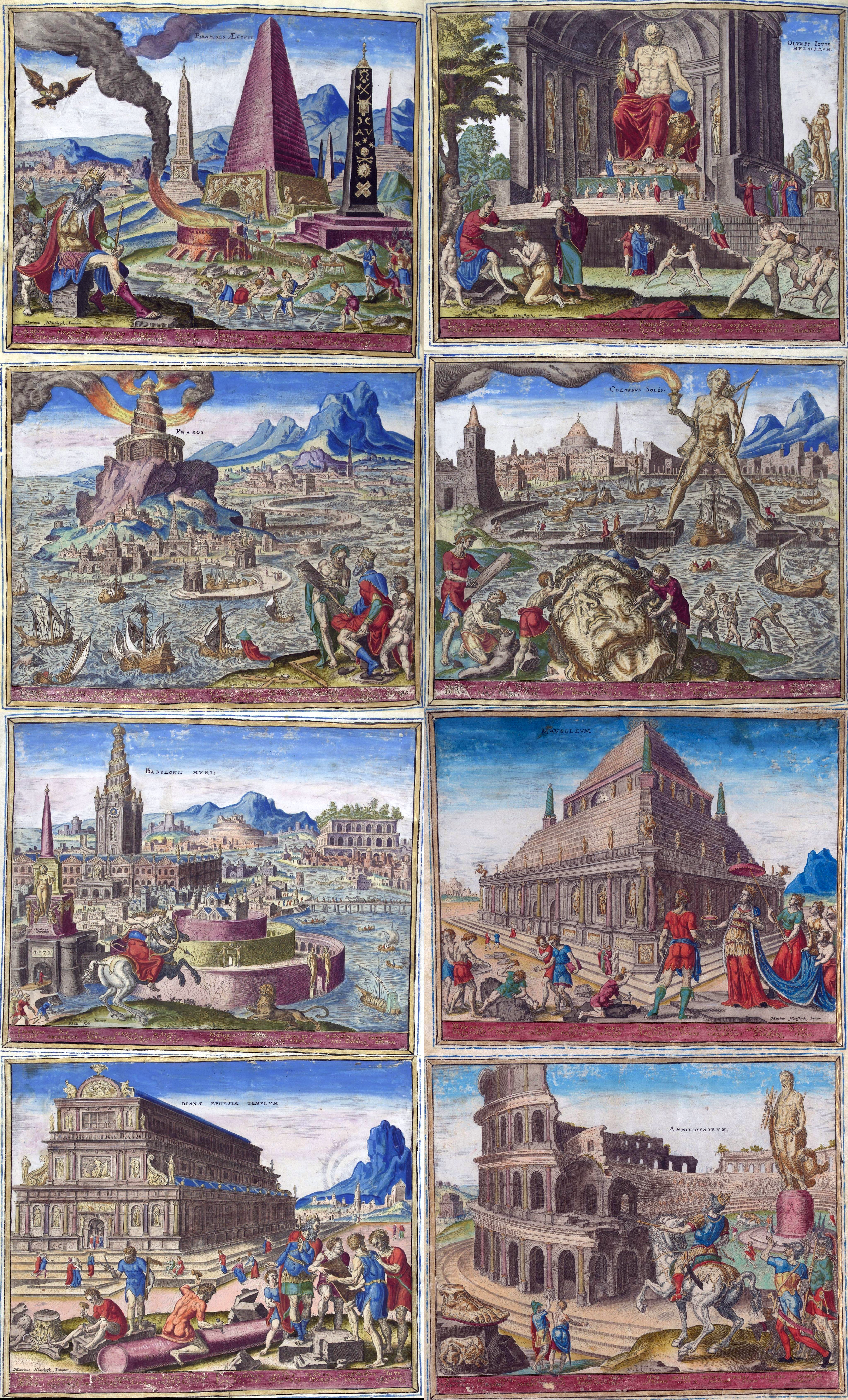 A collage of The Seven Wonders of the (ancient) world, depicted by 16th-century Dutch artist Maarten van Heemskerck.